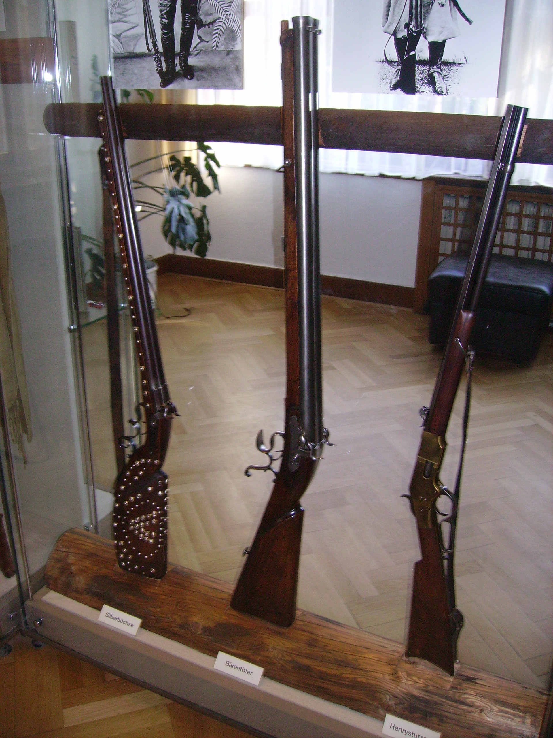 Karl May Museum in Radebeul (Dresden, Germany)